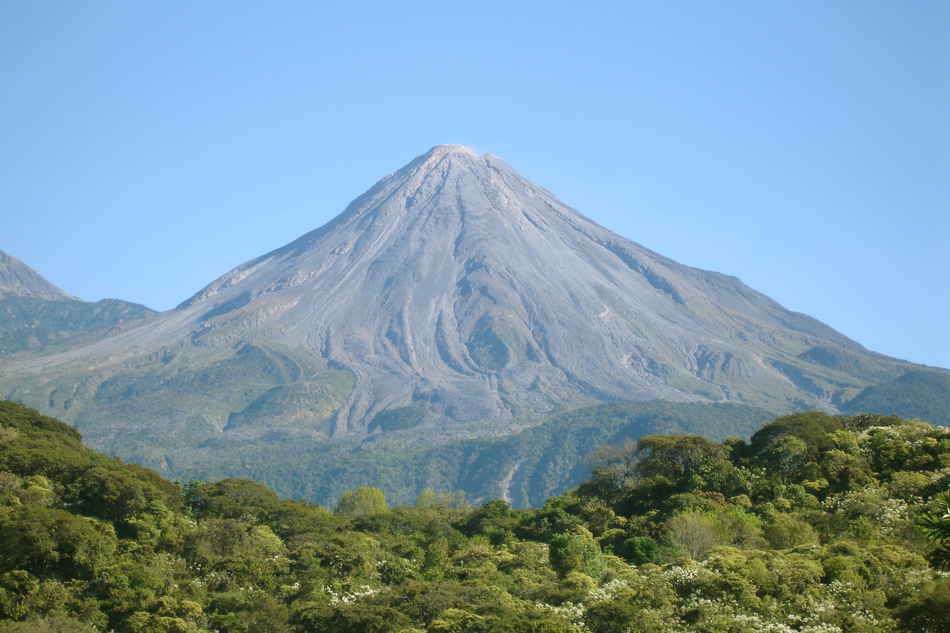 Colima Volcano. Image taken from Colima, Mexico